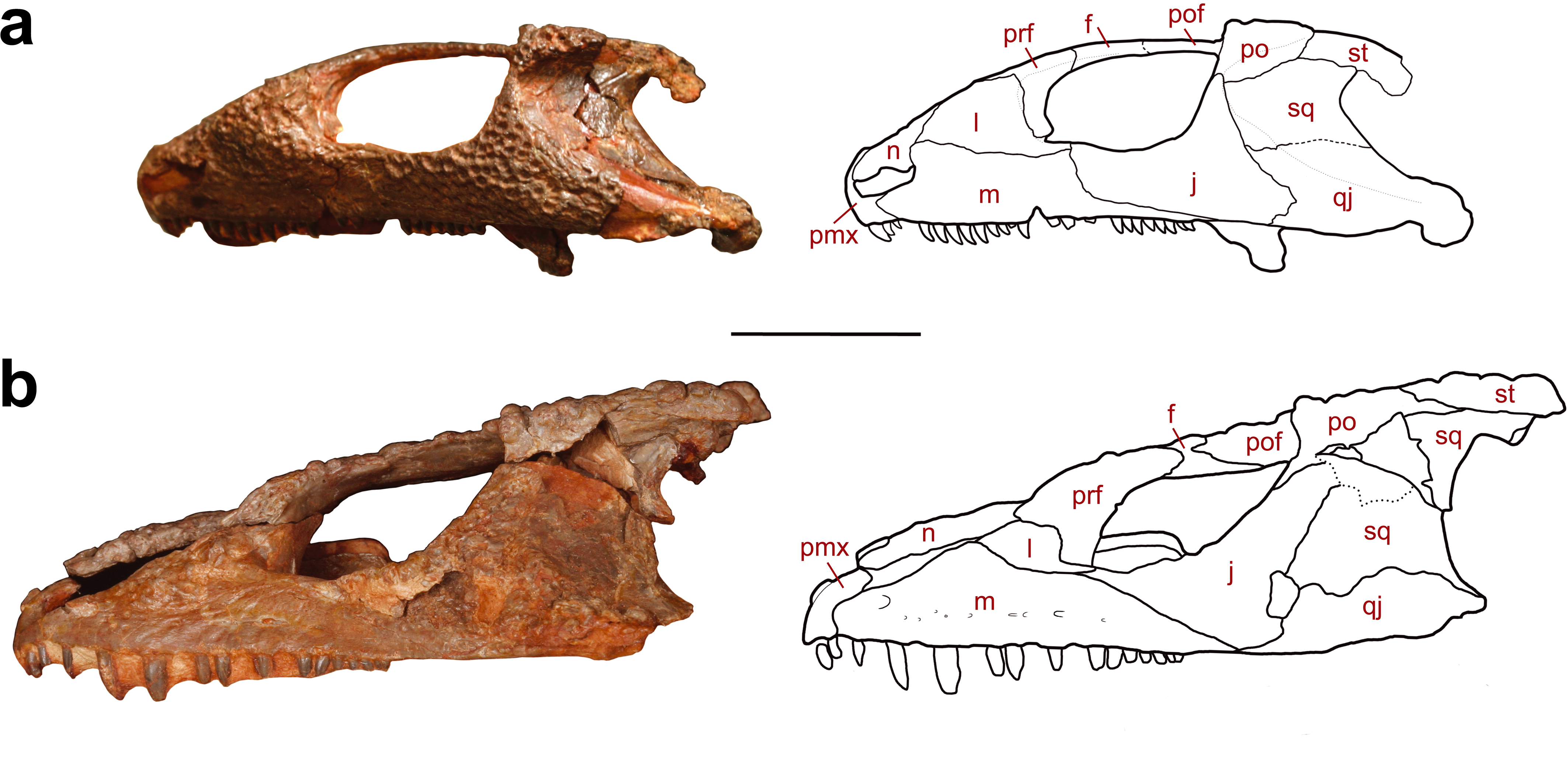 Hearing adaptations in the temporal region of the non-pareiasaurian parareptiles from the Mezen River Basin. (a) Lateral view of the skull of Bashkyroleter mesensis (PIN 162/30), which possesses the largest tympanum among the investigated taxa, as indicated by the non-sculptured posterolateral depression and the temporal emargination. (b) Lateral view of the skull of Macroleter poezicus (PIN uncataloged), the basalmost taxon within the clade. Bone abbreviations: f, frontal; j, jugal; m, maxilla; n, nasal; pmx, premaxilla; po, postorbital; pof, postfrontal; prf, prefrontal; qj, quadratojugal; sq, squamosal; st, supratemporal. Scale bar equals 2 cm.